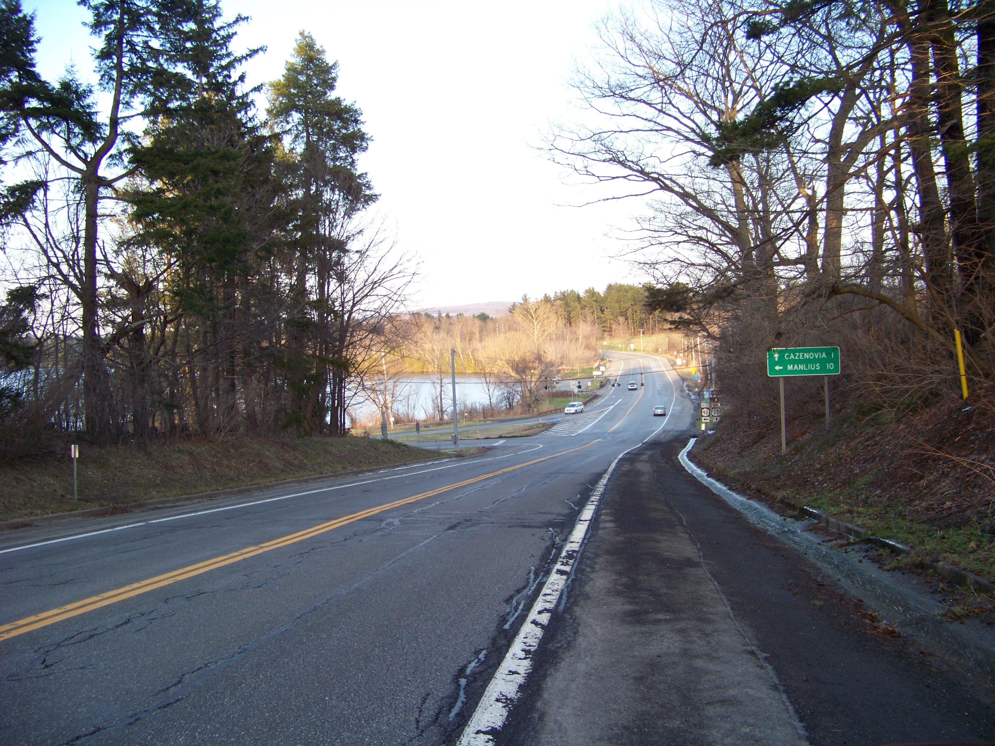 NY 92 eastern terminus as seen from NY 20 looking east